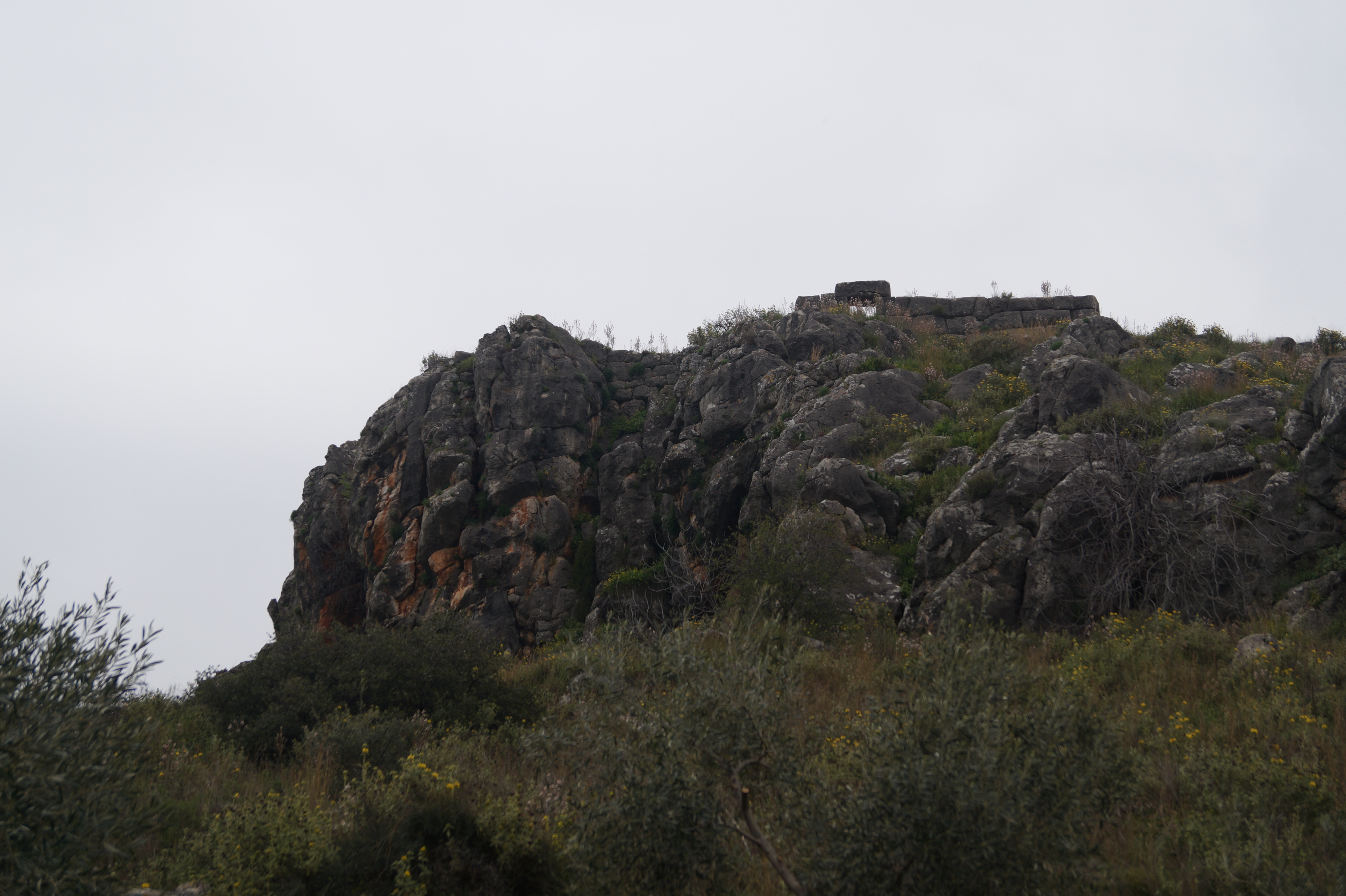 Agios Adrianos, Argolis, Greece: View from north-west on the Fort of Katsingri.